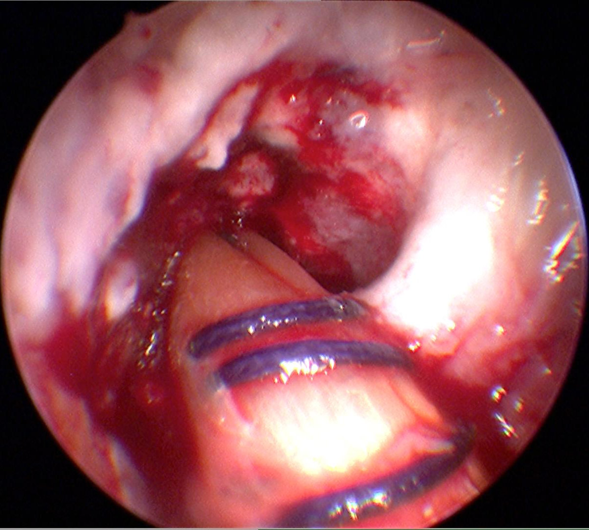 Arthroscopic reconstruction of the anterior cruciate ligament (ACL) of the right knee. The tendon of the semitendinosus muscle was prelevated and used as an autograft. The tendon was folded to form three bundles. A string (shown here anterior to the posterior cruciate ligament) is used to pull the autograft through a channel that is drilled through the tibia and femur. The string pulls the autograft towards the upper tunnel in the top of the intercondylar area.